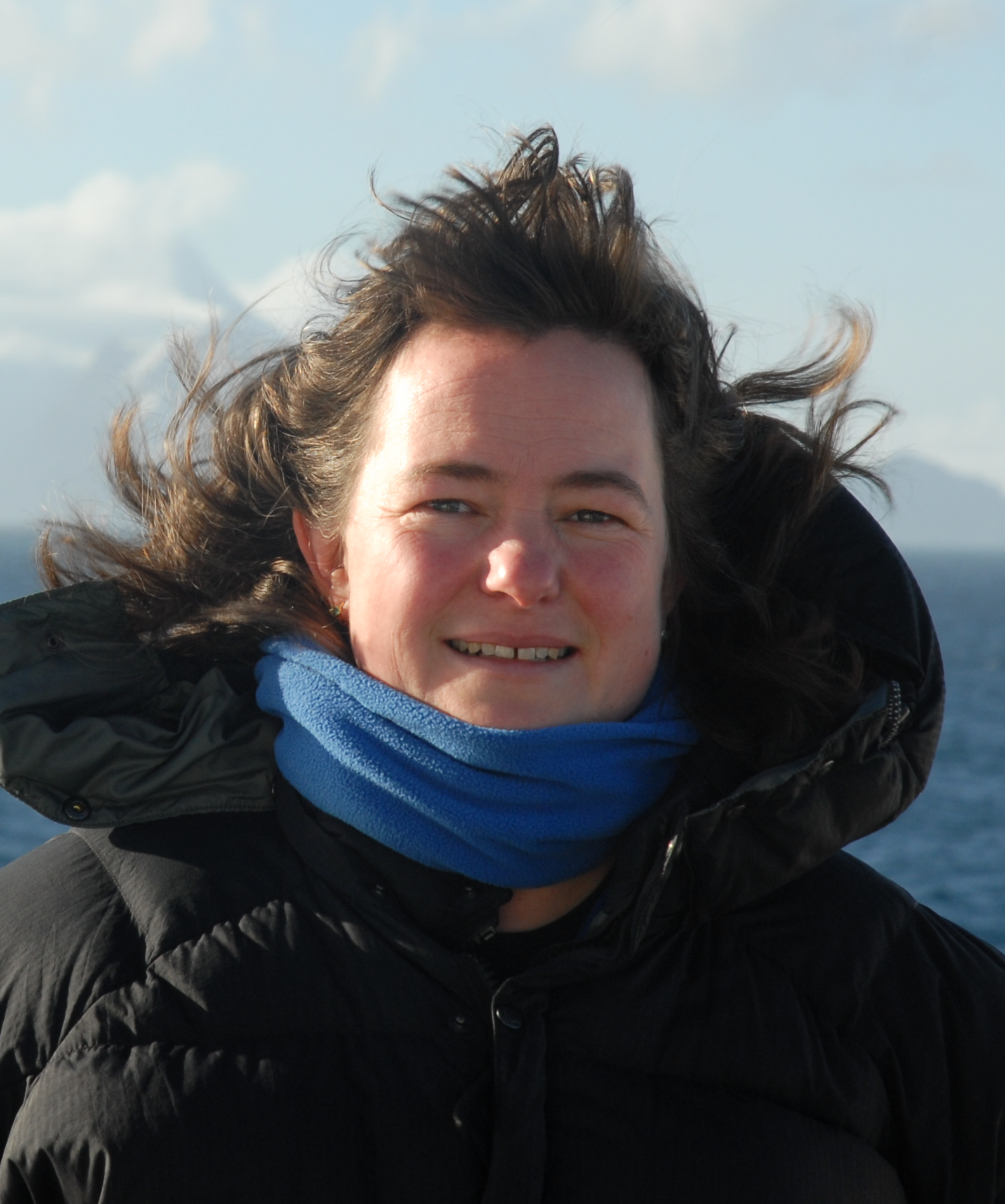 Dr. Katrin Linse on board of RSS James Cook in the Antarctic